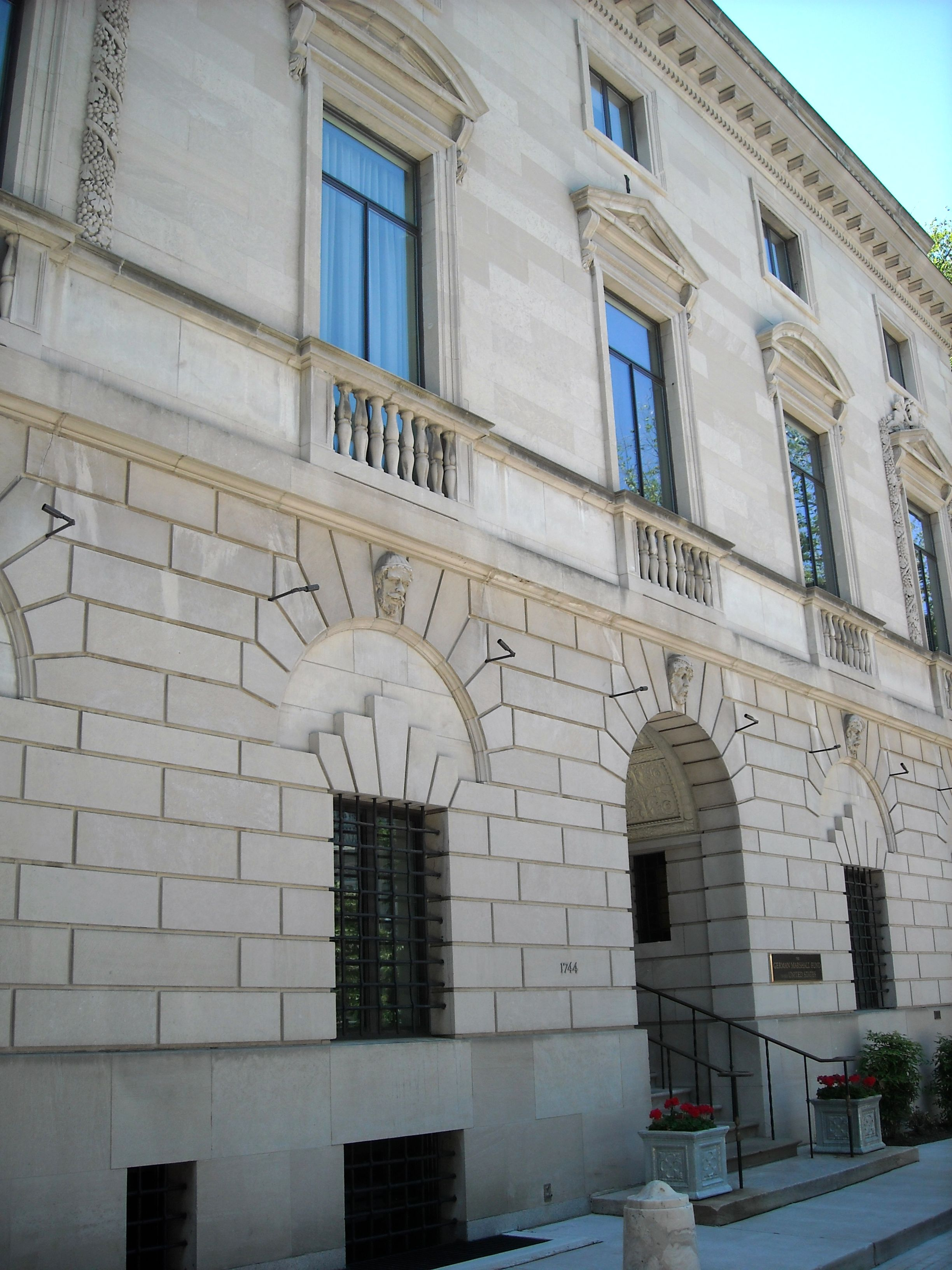 German Marshall Fund headquarters in Washington, D.C.